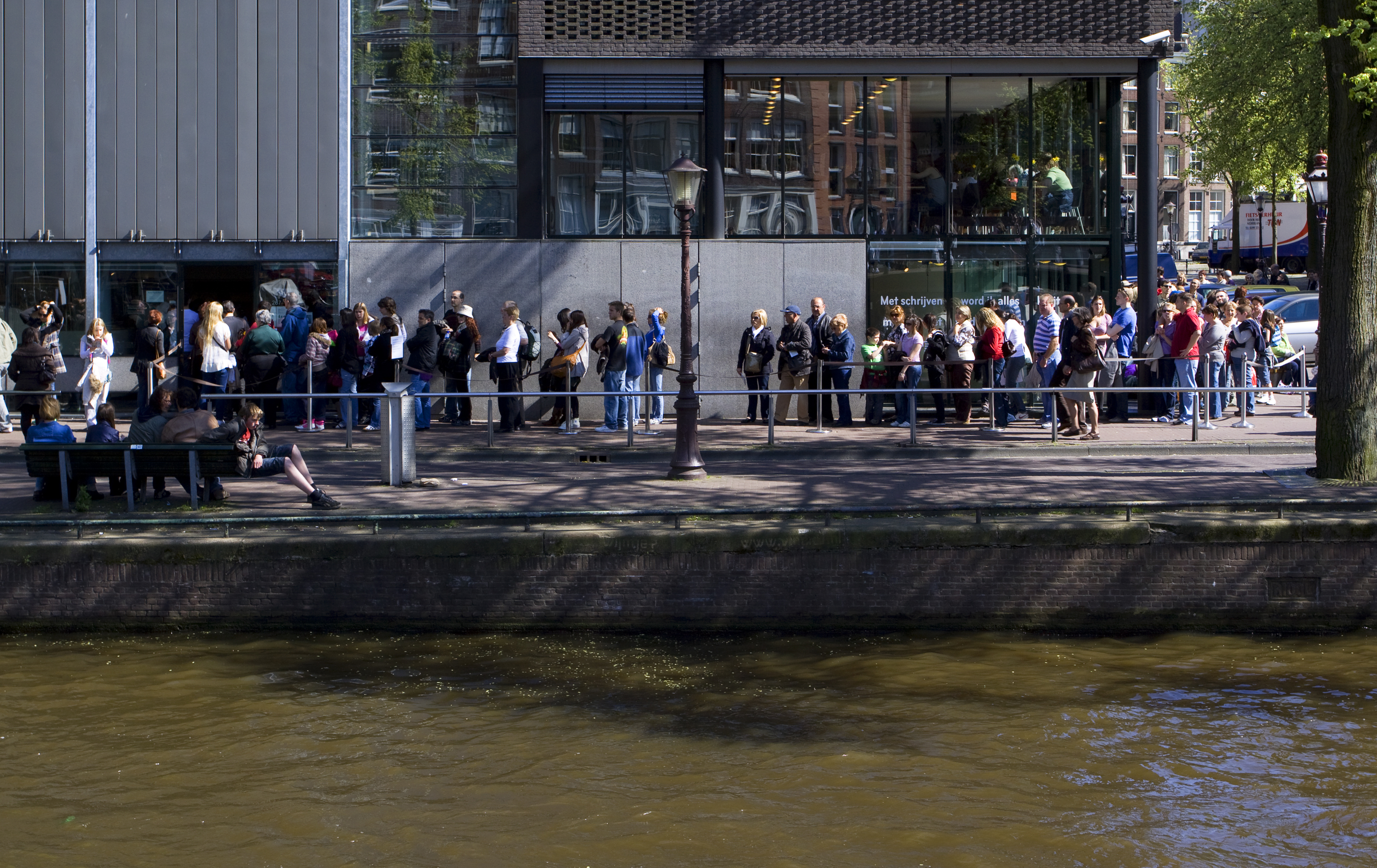 People waiting in line in front of the Anne Frank Museum in Amsterdam, the Netherlands.